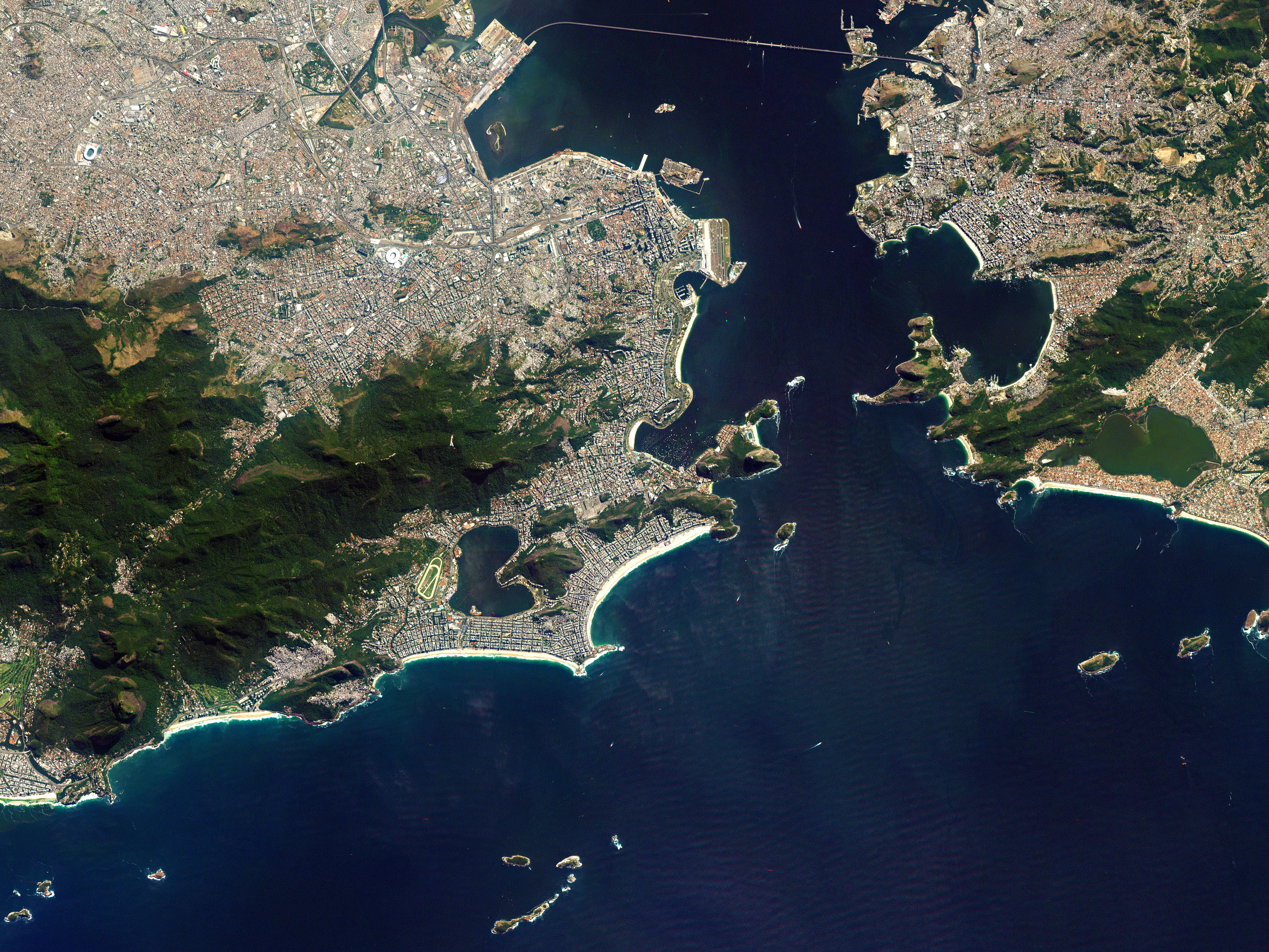 Rio de Janeiro Brazil August 6, 2016 Rio de Janeiro, Brazil—captured on Day One of the 2016 Olympic Games. At the time this image was captured, crew teams were rowing qualifying races in Rodrigo de Freitas Lagoon, the mens cycling road race was winding through the lush mountain greenery of Tijuca National Park (left), and beach volleyball qualifications were underway on Copacabana Beach (middle). Image: RapidEye satellite.